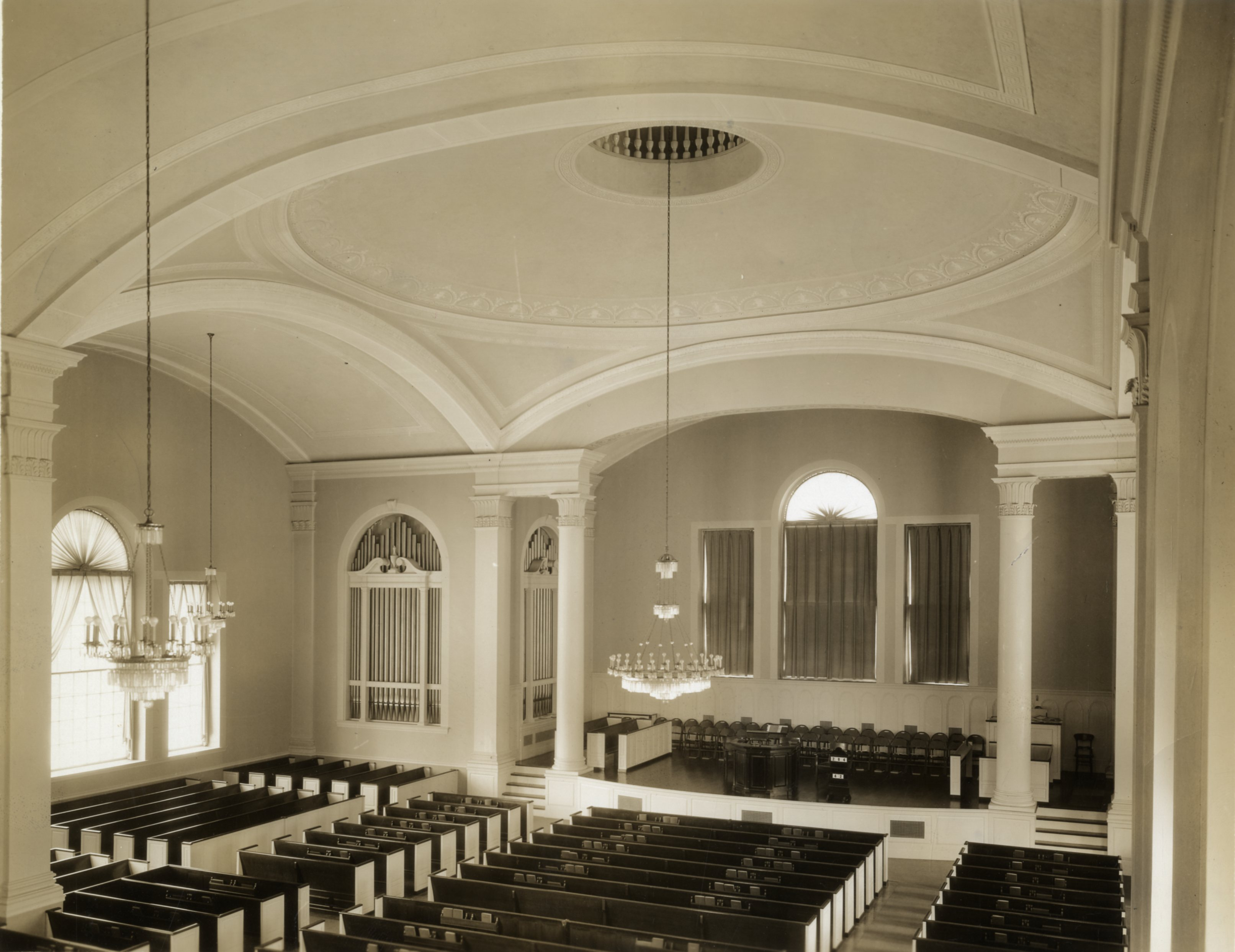 Interior view from the balcony of the Ira Allen Chapel at the University of Vermont (undated photo)